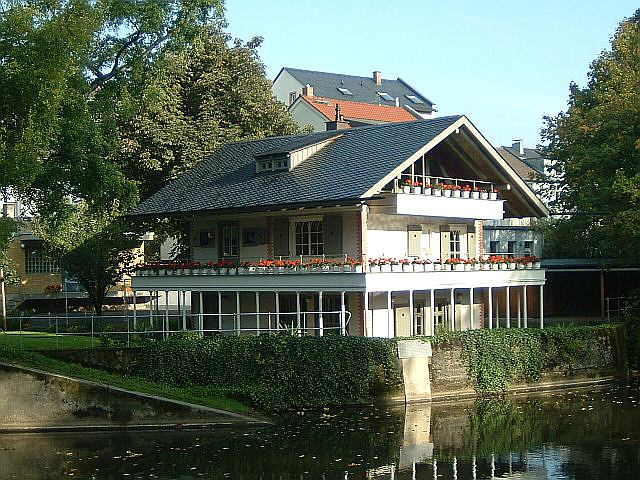 A house in Swiss style, inhabited by the family of Brentano